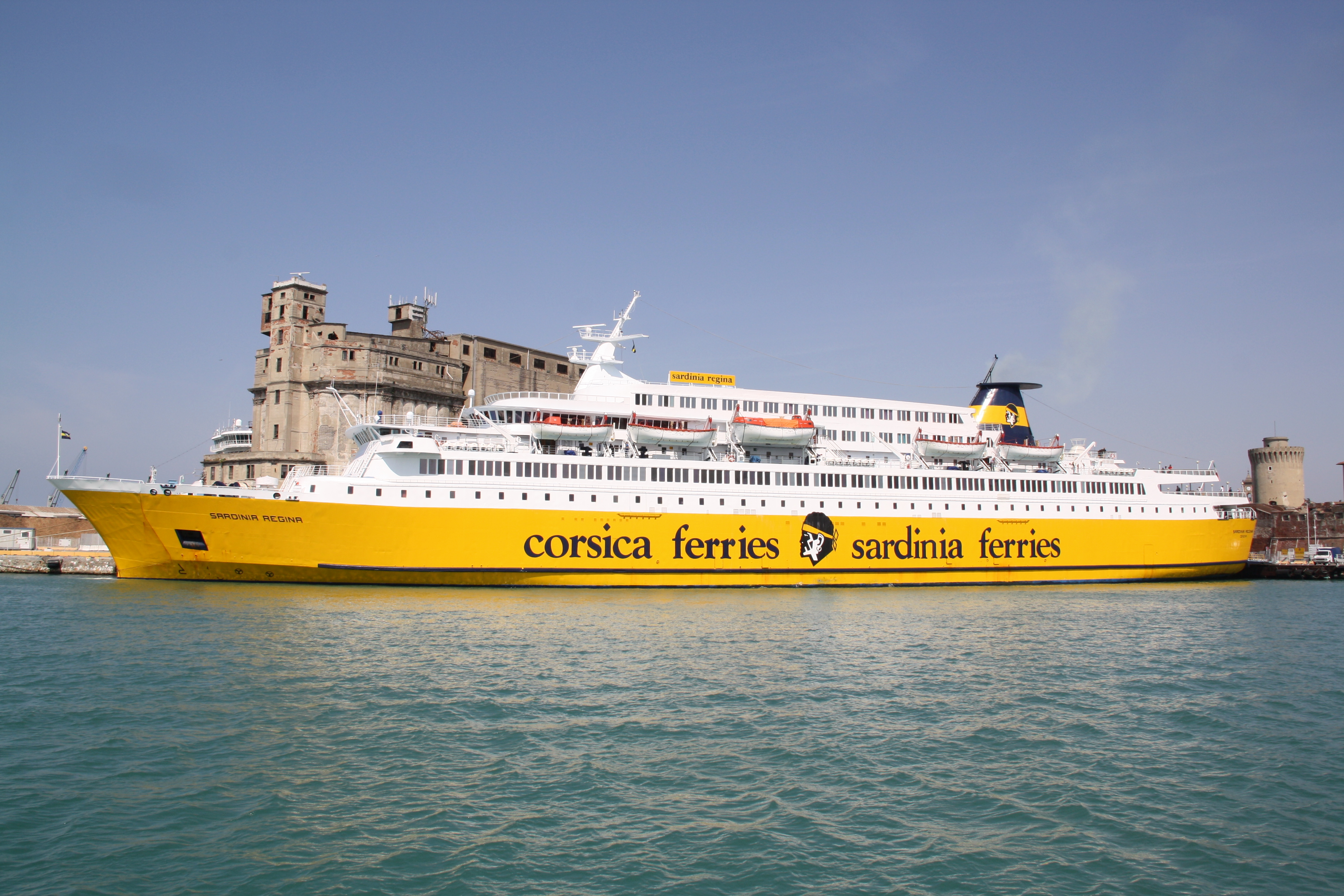 Shipowner: Forship S.p.A., Vado Ligure Operator: Corsica Ferries - Sardinia Ferries IMO: 7205910 MMSI: 247079000 Call sign: IBMS Type: Ropax Builder: Brodogradiliste Jozo Lozovina Mosor, Traù, Jugoslavia Yard number: 161 Keel laid: February 12, 1972 Launch date: October 29, 1972 Port of registry: Genoa Gross tonnage: 13,004 t Net tonnage: 5,916 t DWT: 2,649 t Length overall: 146.55 m Breadth: 20.86 m Draught: 5.295 m Main engine: 6 x Nohab/Polar SF116VS-E diesel engines Engine power: kW Speed: 19 knots Passengers: 1790 Cars: 480